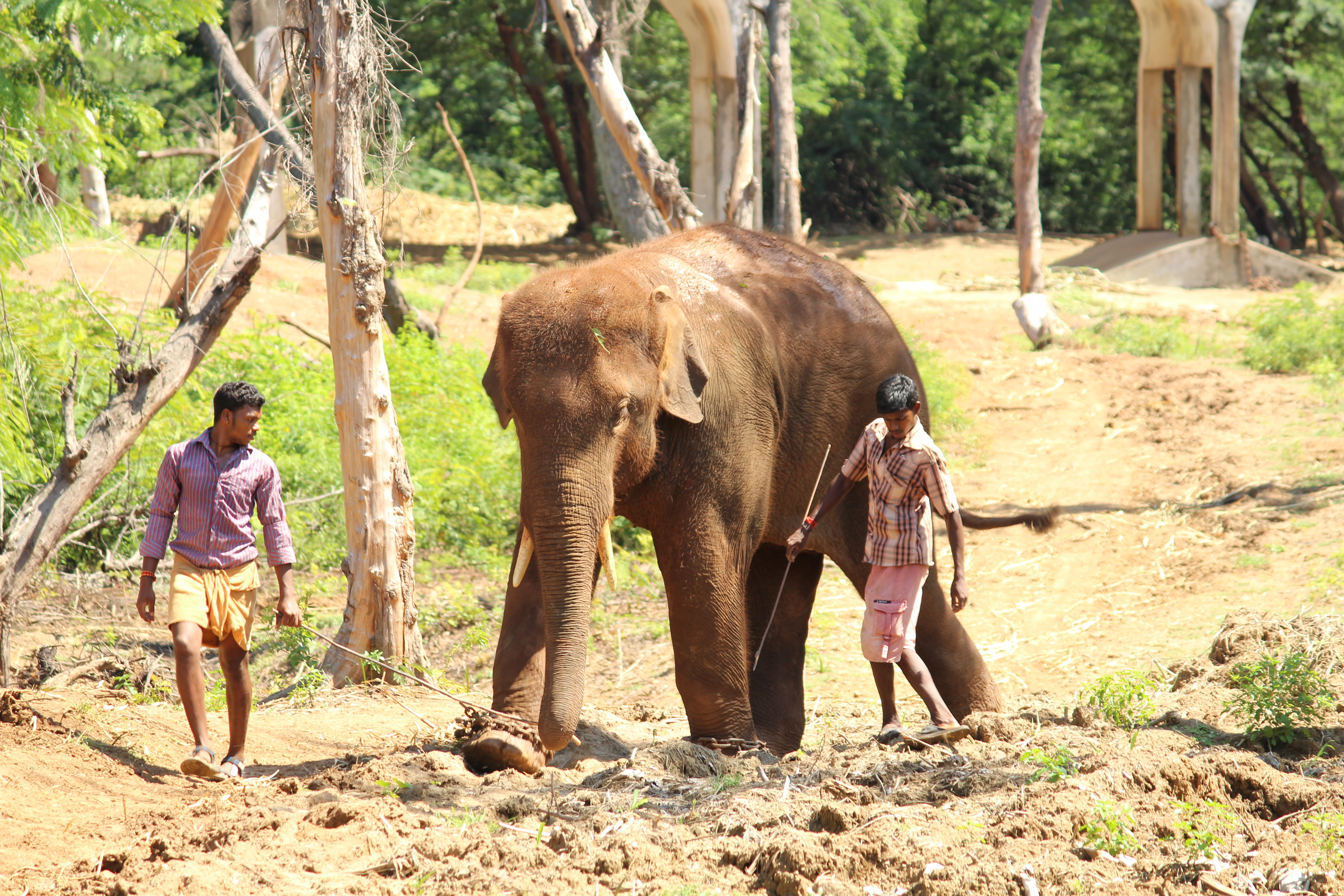 Elephant Raju at Indira Gandhi Zoological Park, Visakhapatnam